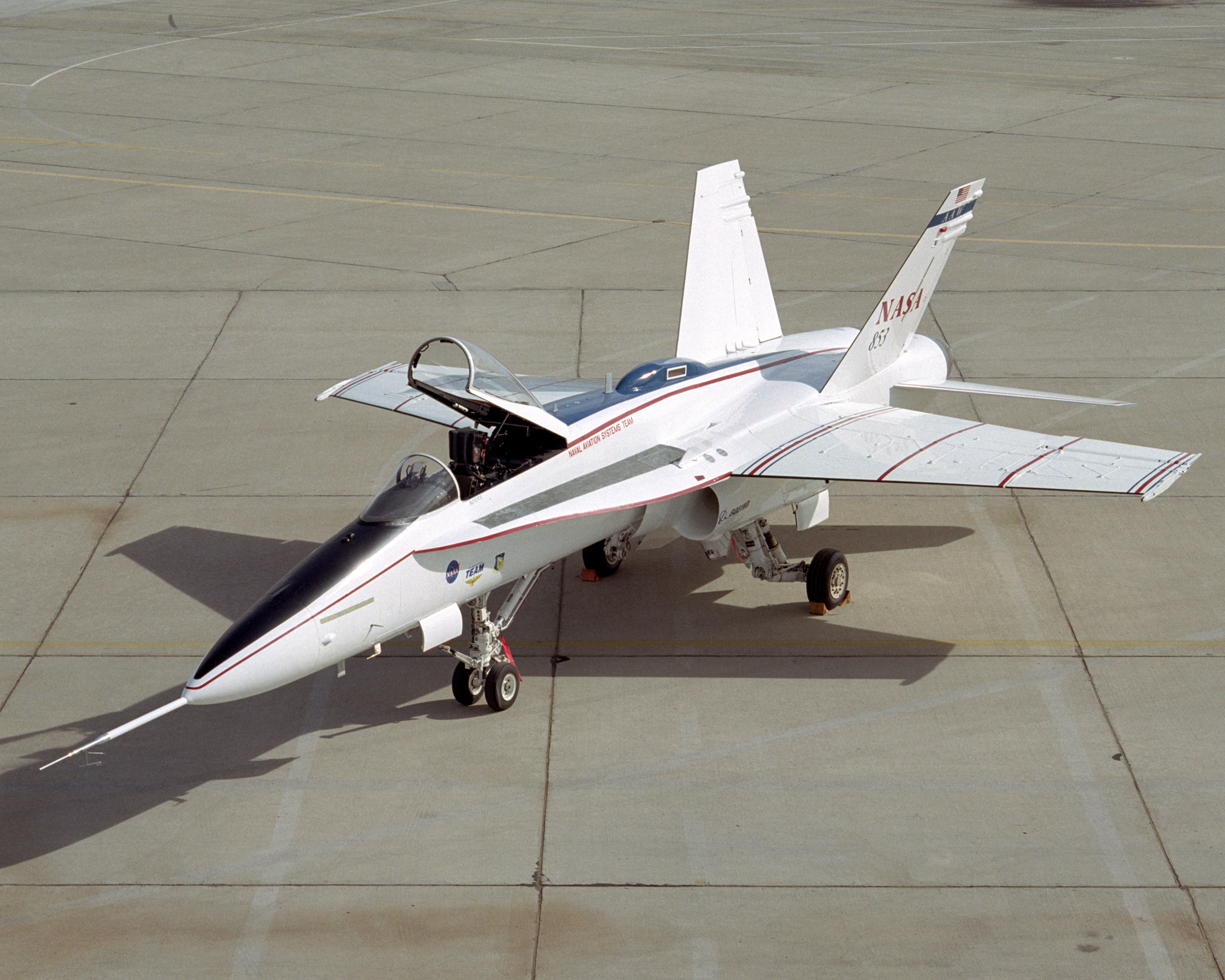 Boeing X-53 Active Aeroelastic Wing demonstrator. A modified F/A-18A sporting a distinctive red, white and blue paint scheme is the test aircraft for the Active Aeroelasatic Wing (AAW) project at NASA's Dryden Research Center, Edwards, California.